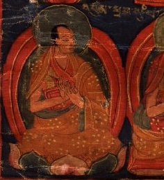 Bumdrak Sumpa, b.1432 - d.1504, Sakya Lama